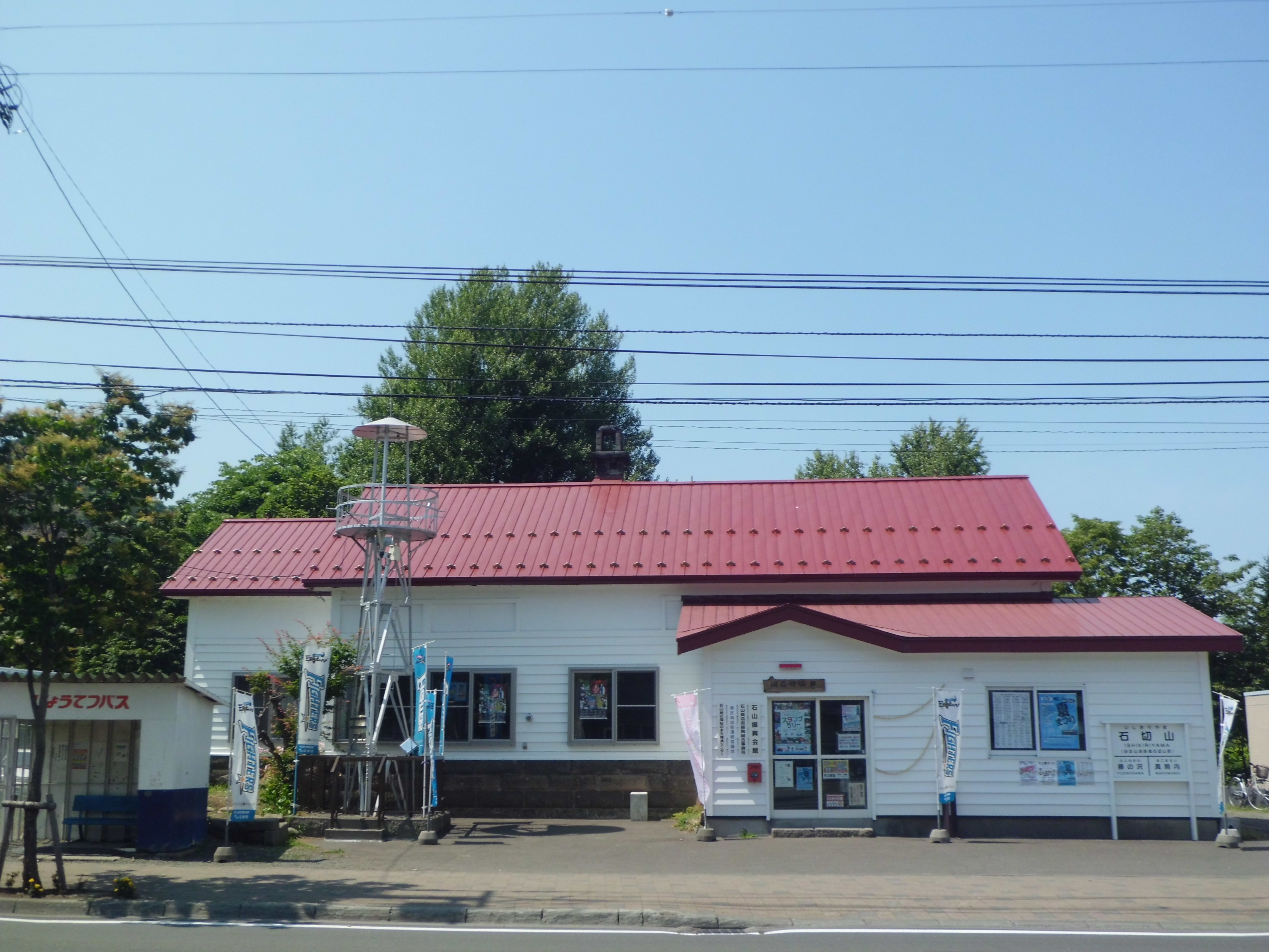 Ishiyama Promotion Hall, former Ishikiriyama Station